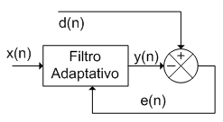 Structure of an adaptive filter Imagen creada por el usuario Murphy sujeta a las condiciones de la licencia GFDL.